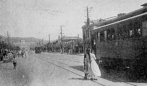 Taihei-Dori in Keijo (present-day "Taepyeongno")